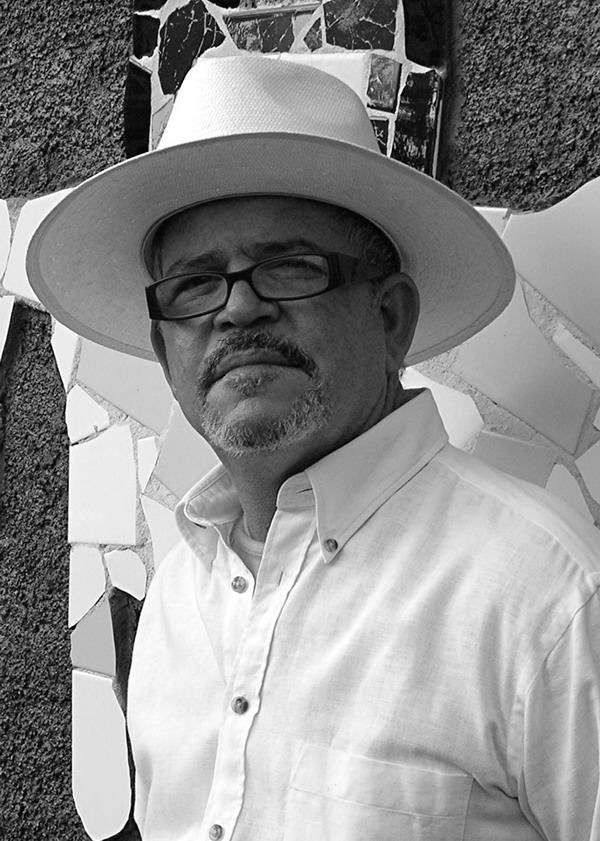 Photograph of artist José Rodríguez Fuster, Jaimanitas, Havana, Cuba. Fotografia del artista José Rodríguez Fuster, Habana, Cuba.